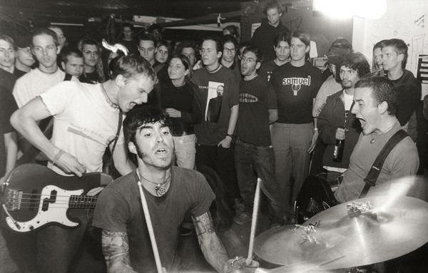 Photo: Ian J Whitmore